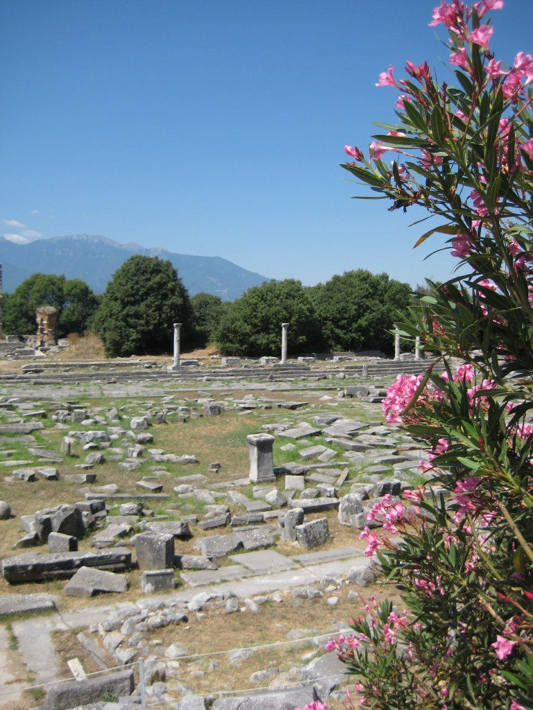 Picture of the ancient agora/forum of Philippi, Macedonia, a view from behind the bema (south-west).